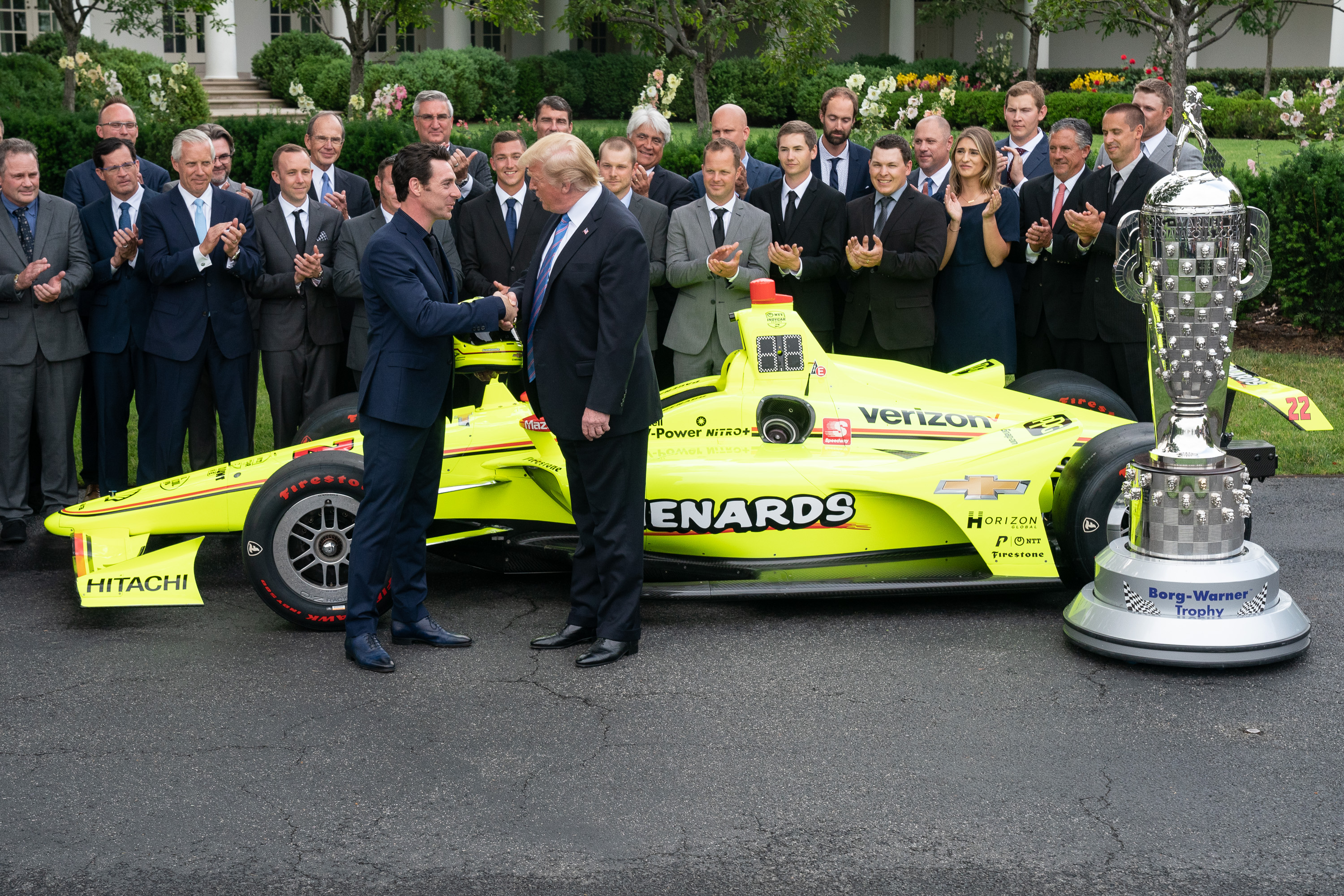 President Donald J. Trump welcomes race car driver Simon Pagenaud and the 103rd Indianapolis 500 Champion Team and their race car Monday, June 10, 2019, to the White House. (Official White House Photo by D. Myles Cullen)